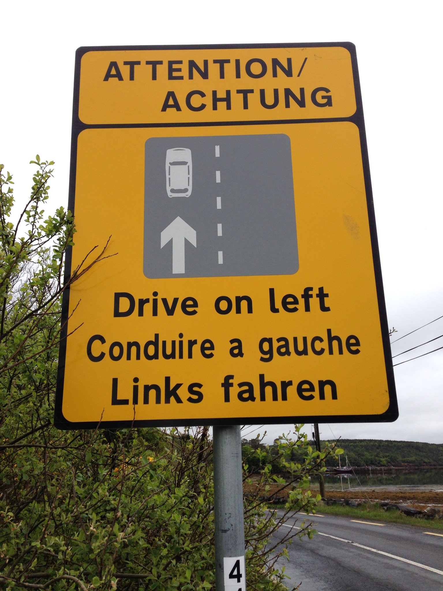 Sign aimed at continental drivers in Connemara, County Galway, Ireland